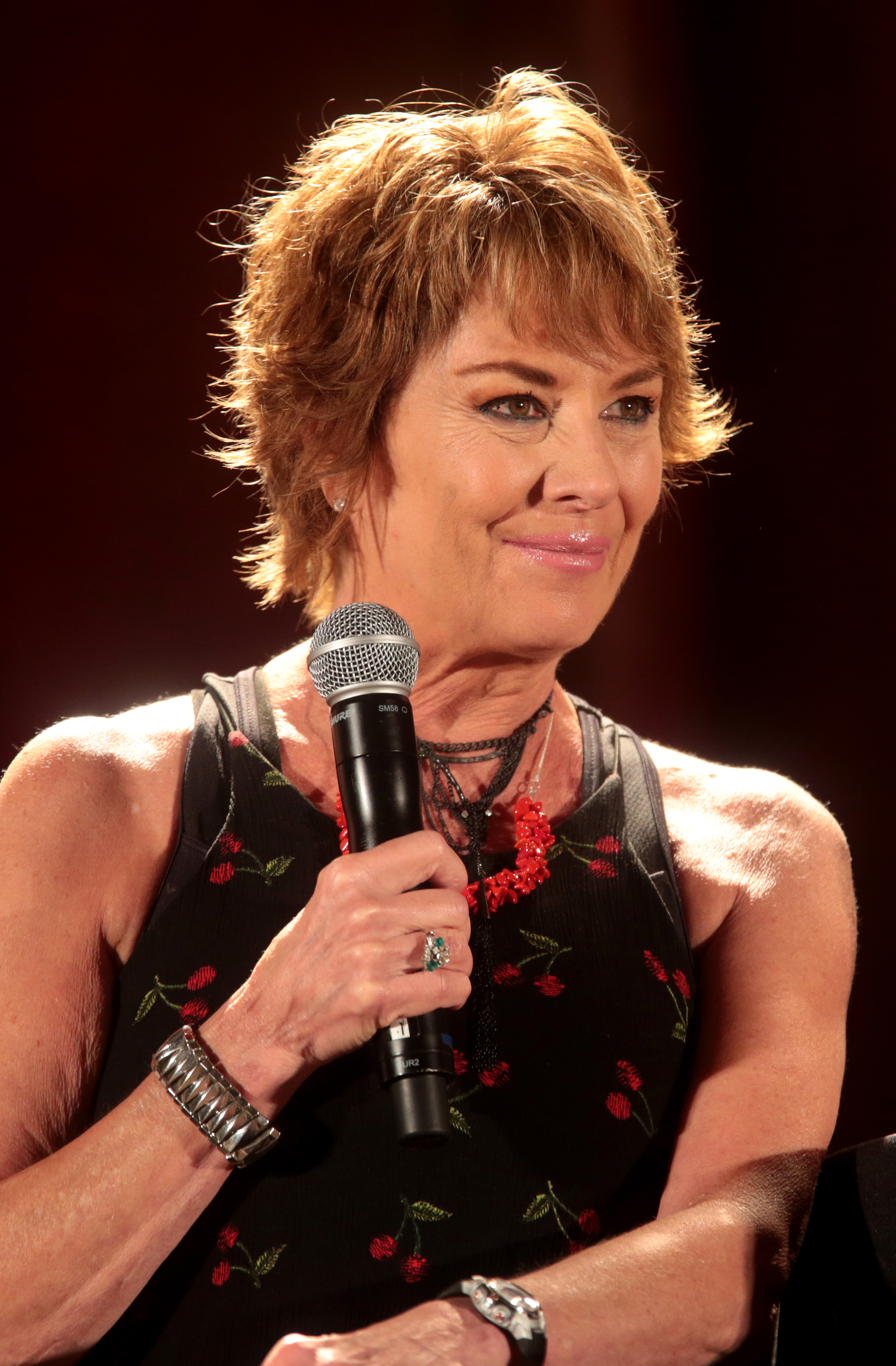 Paige O'Hara speaking at the 2018 Phoenix Comic Fest in Phoenix, Arizona.